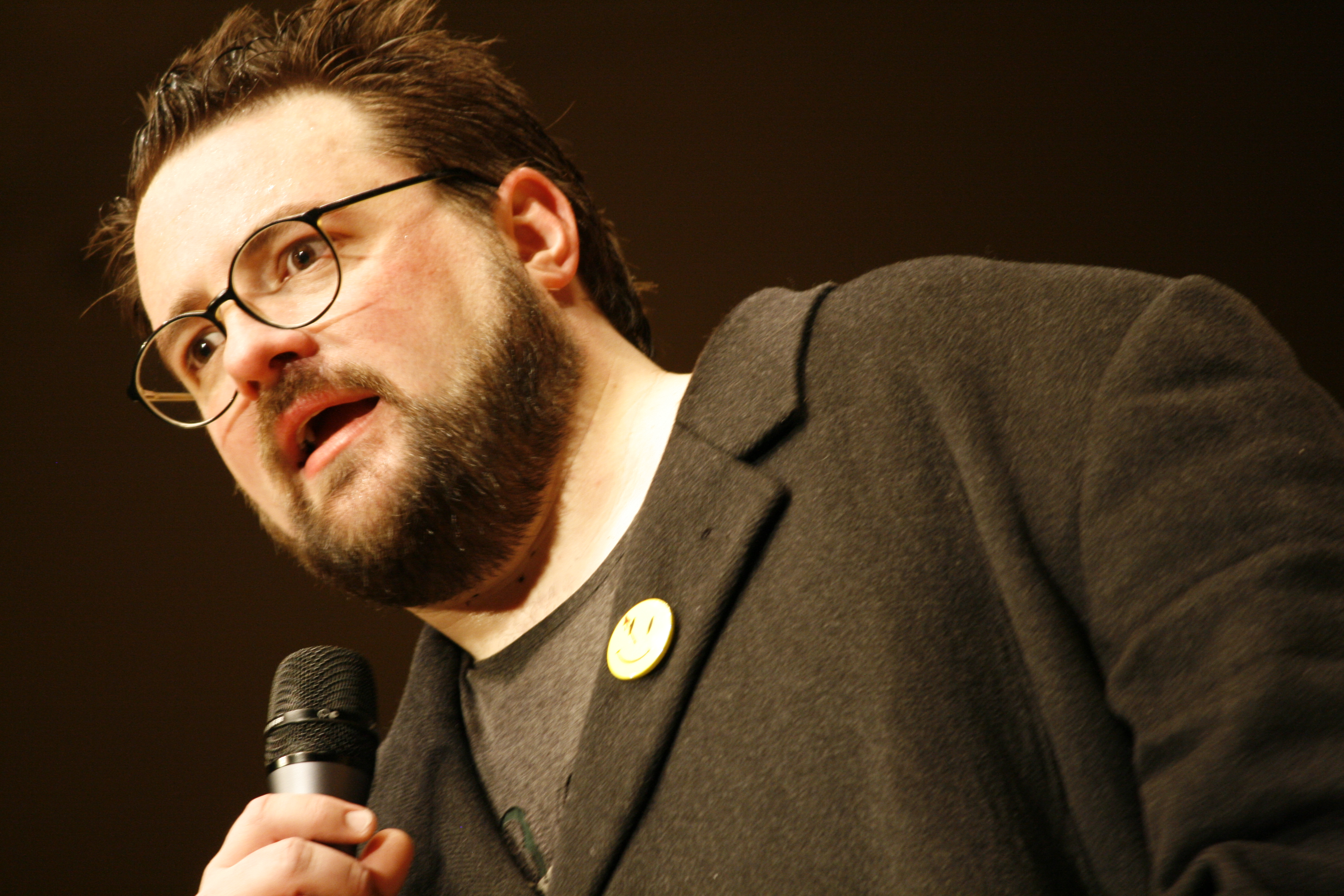 Kevin Smith "Jay and Silent Bob" are fictional characters portrayed by Jason Mewes and Kevin Smith, respectively, in Kevin Smith's View Askewniverse, a fictional universe created and used in most of the films, comics and television programs written and produced by Smith, beginning with Clerks.